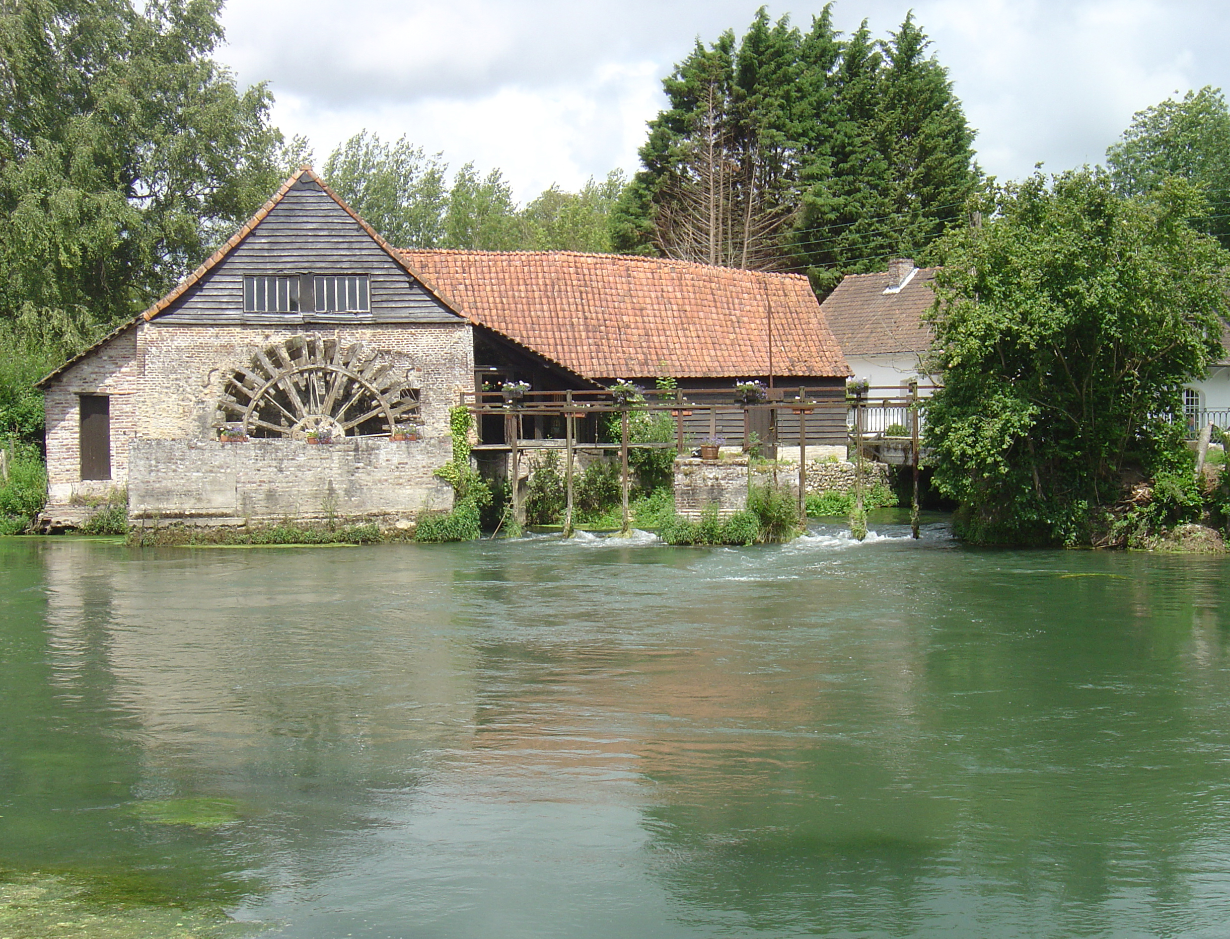 Watermill near Maintenay, France on Authie river